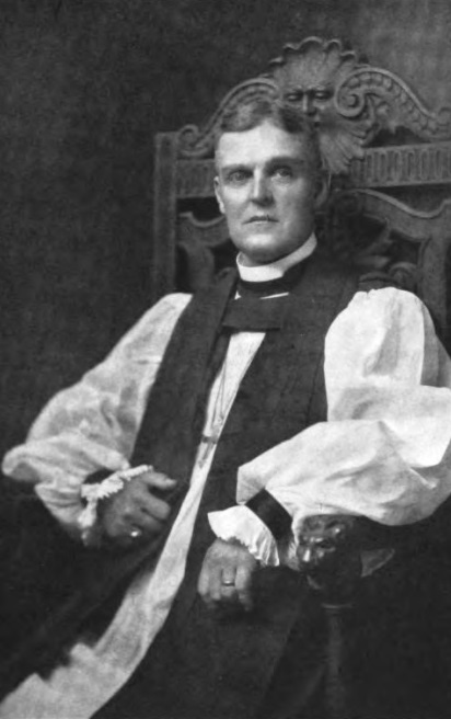 The Rt. Rev. Frederick Rogers Graves, first Bishop of the Missionary District of Shanghai. Consecrated June 14, 1893.